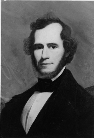 Thomas Watkins Ligon by Paul Hallwig, d. 1925